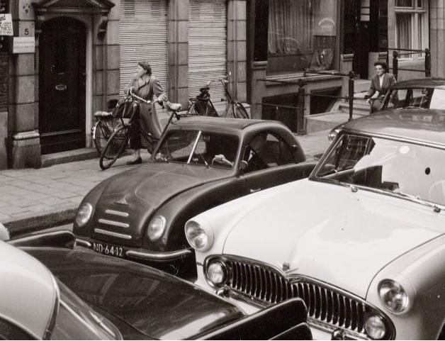 ND-64-12 Champion 400 1951